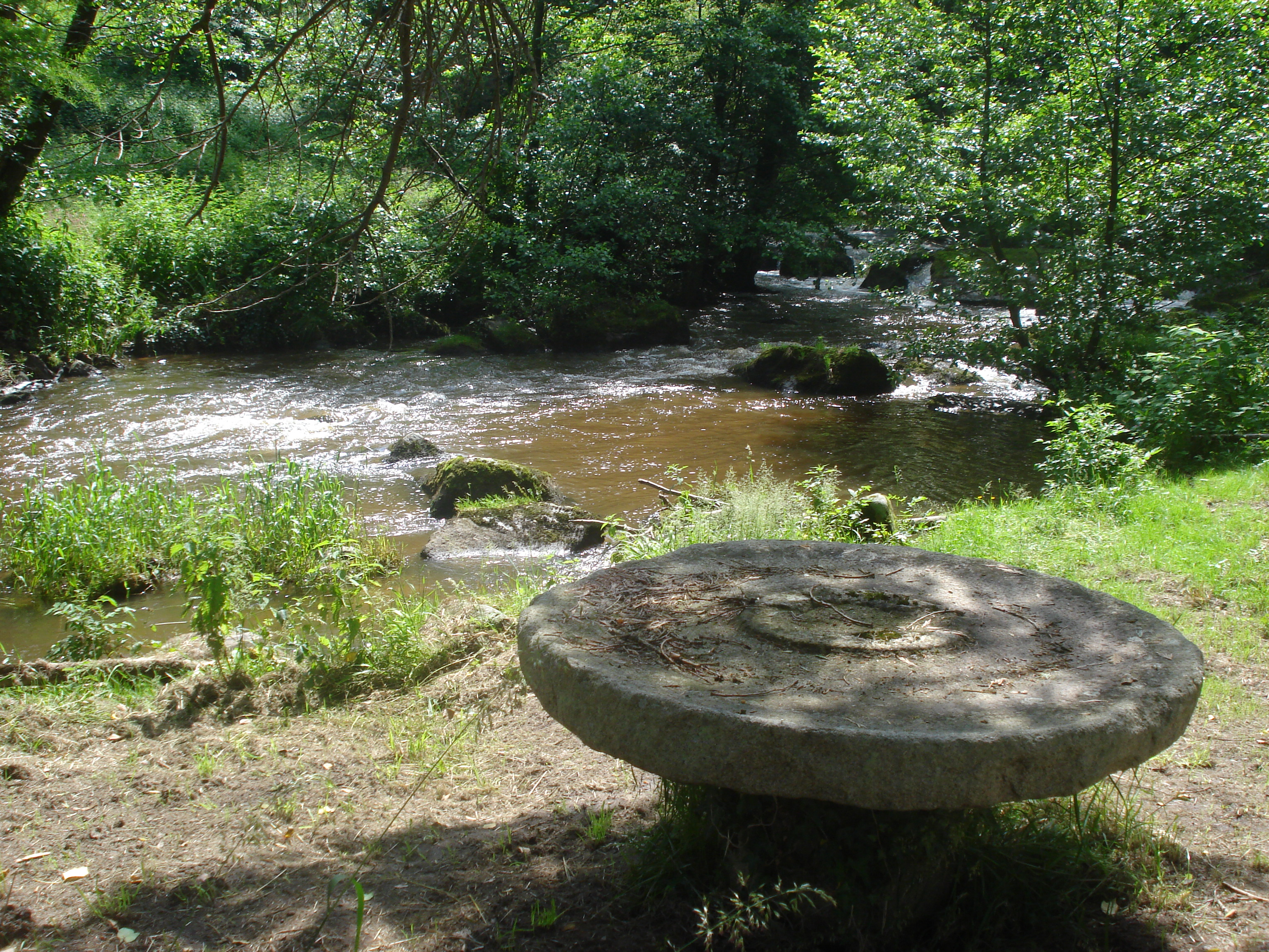 The Ardour river near Marsac (Creuse, Fr)